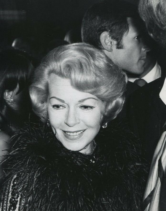 Lana Turner at the ABC Television Convention